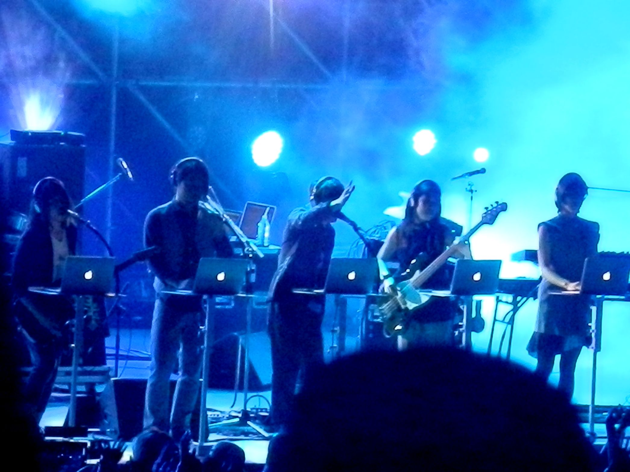 Sakanaction at Join Alive rock festival in Iwamizawa, Hokkaido (June 21, 2013)